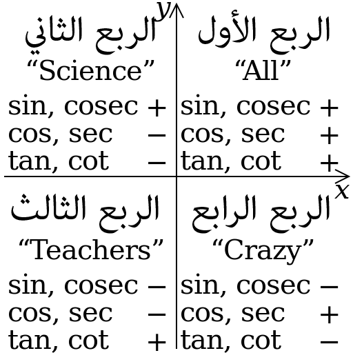 Signs of trigonometric functions in each quadrant. The mnemonic "All Science Teachers (are) Crazy is from .